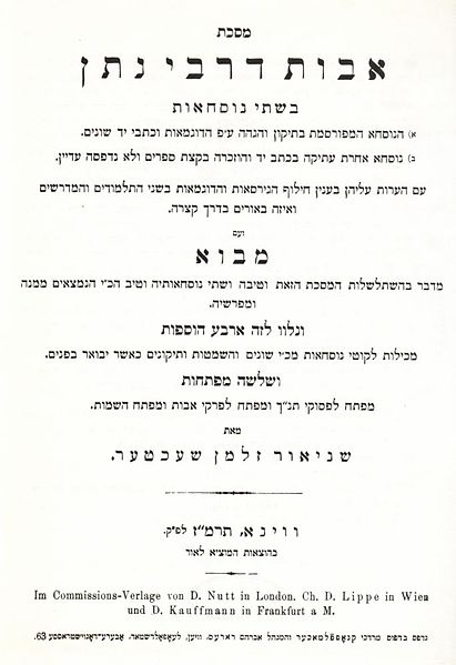 the book cover of Avot Drabi Natan (אבות דרבי נתן) from 1877, Shechter Edition.